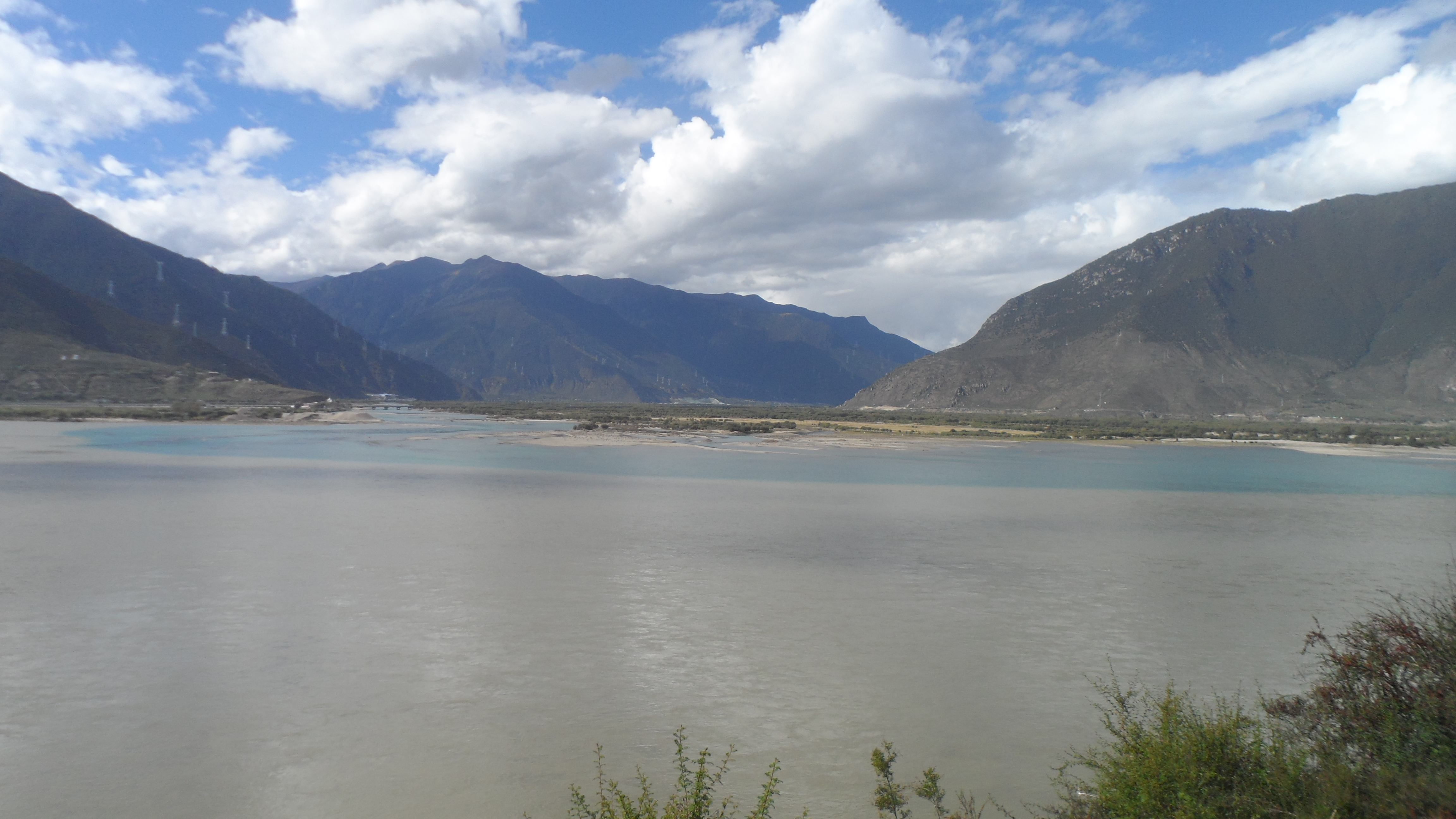 Intersection of Yarlung Tsangpo and Nyang River